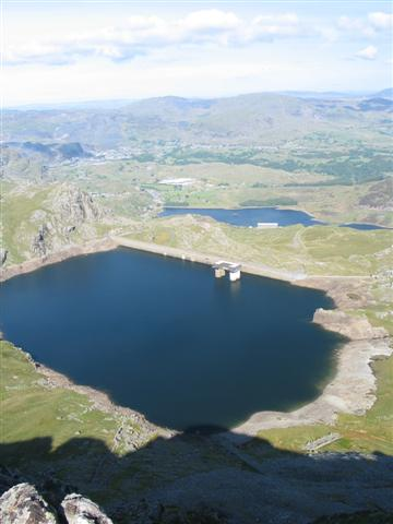 Looking Down on Llyn Stwlan This is the top lake of Ffestiniog Pumped Storage Scheme. The bottom lake and the power station can be seen at the bottom of the mountain. Taken from the south ridge leading up Moelwyn Mawr.